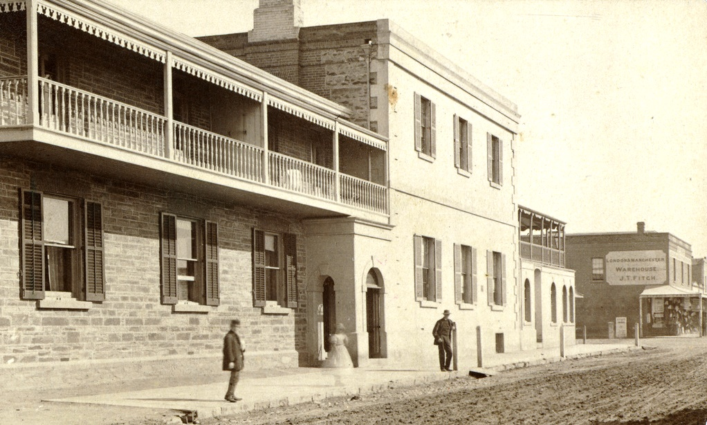 Two-storey hotel on corner of Rundle and Pulteney streets, Adelaide